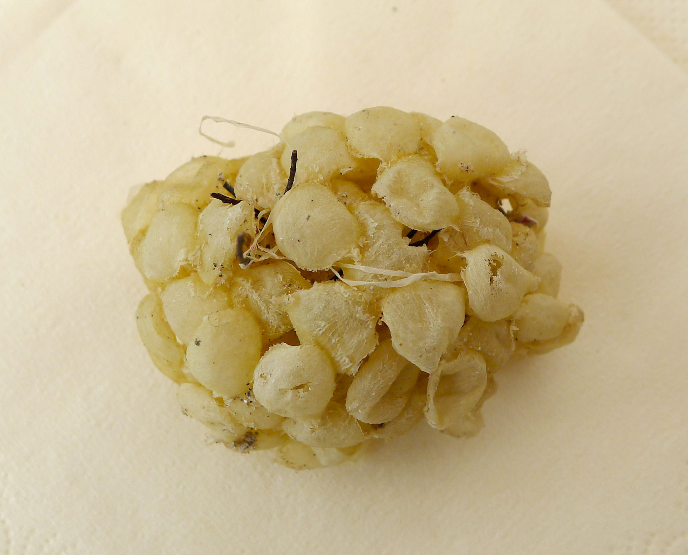 Oa Peninsular, Islay, Scotland.